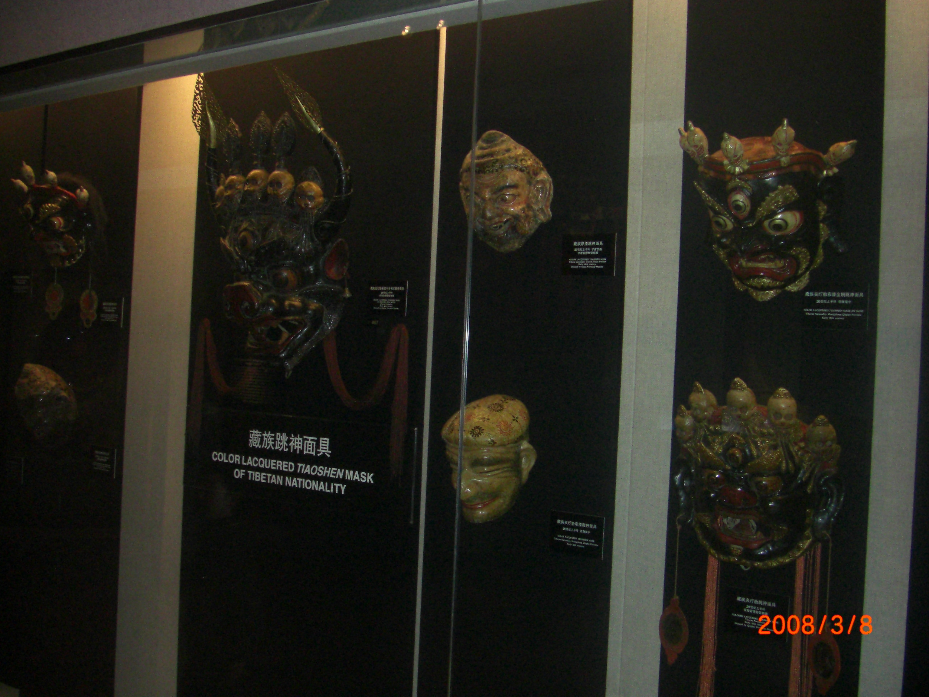 Tibetalian's_mask